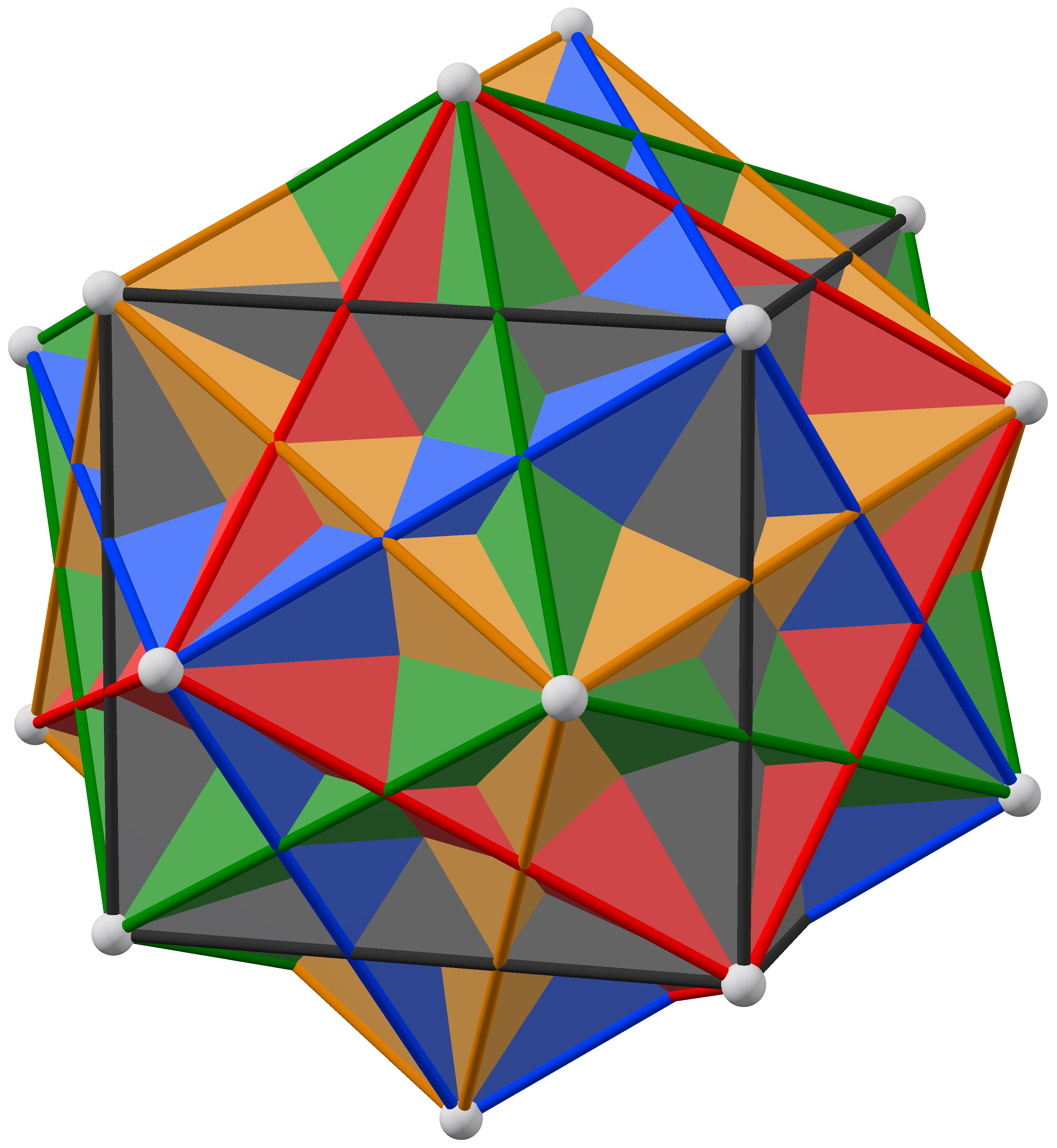 Image set Compound of five cubes, gray and rgby Compound of five cubes The one in the usual orientation is gray. The other four are red, green, blue and yellow. This image was created with POV-Ray.